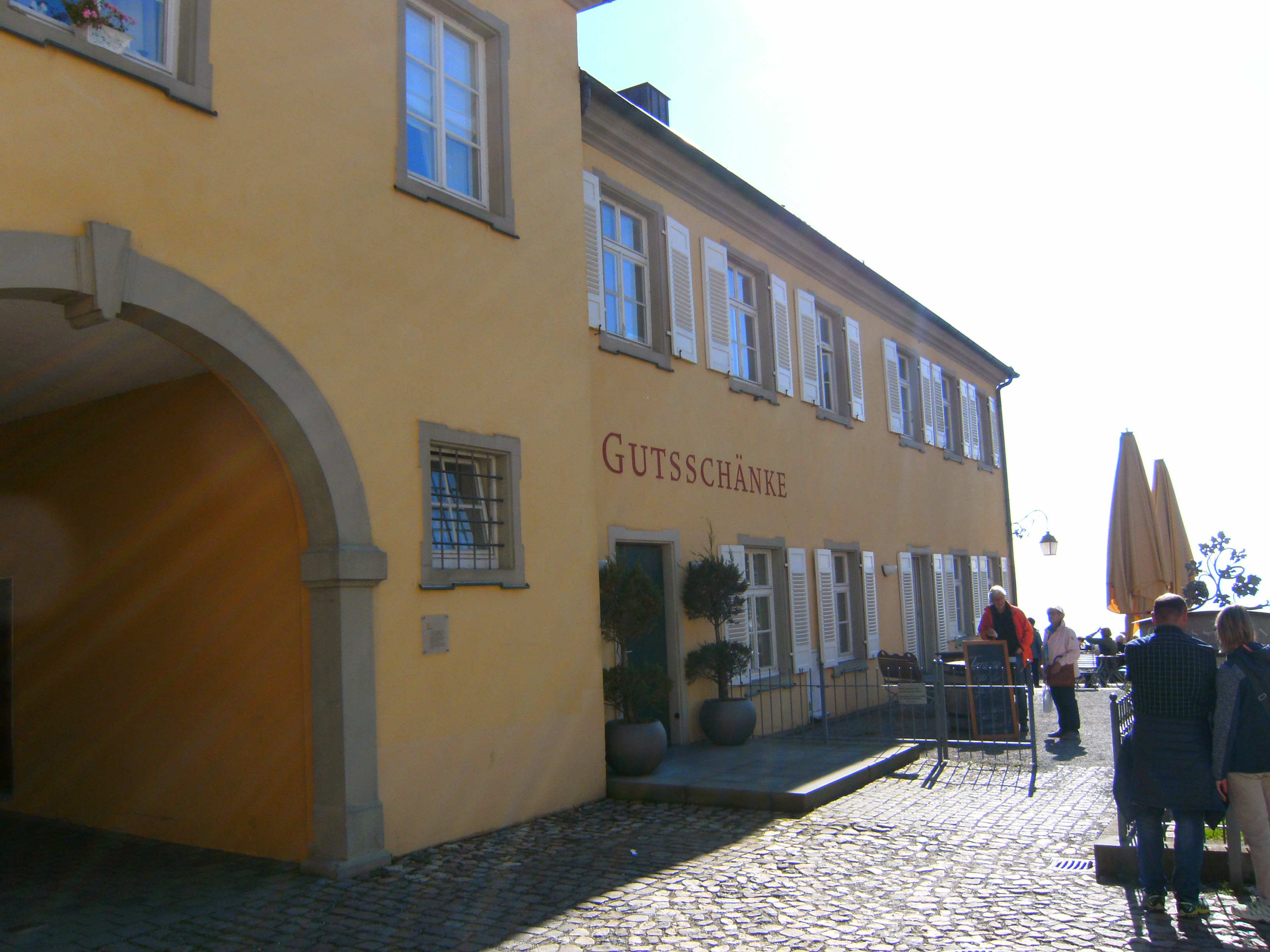 Meersburg, Germany, upper town: Gutsschänke (restaurant) of Staatsweingut Meersburg (vinegrowing estate)